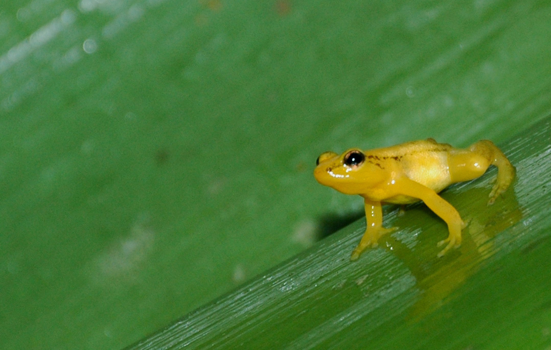 Golden Dart-Poison Frogs (Anomaloglossus beebei) are small, brightly colored tree frogs that live their entire lives (about 5-7 years) inside the cloud forest's bromeliads. Their diet includes small arthropods, ants, termites, small insects, and mosquitoes and midges. Their bright colors -- in patterns of green, red, orange, yellow, blue, white and/or jet black, depending on the species -- are intended to warn predators of their deadly toxins. They may live either in the water or in trees near rivers, streams, and various small bodies of water.